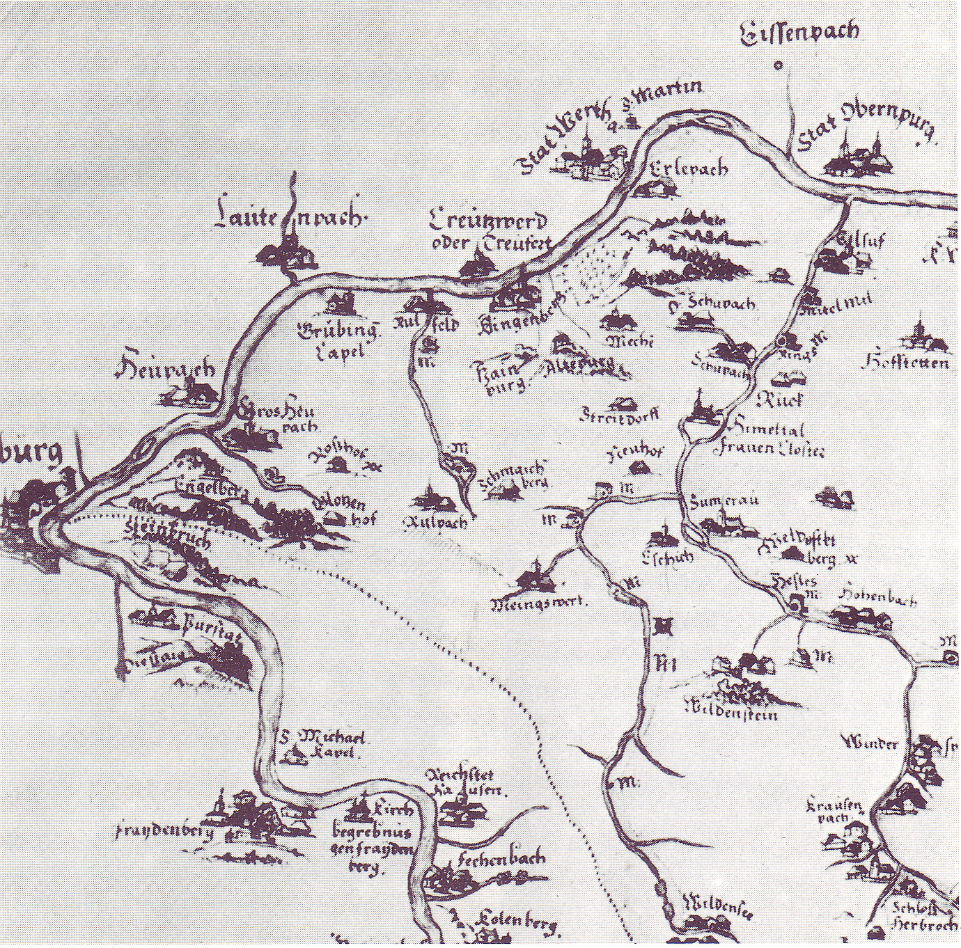 Excerpt of the map of Spessart made by Paul Pfinzing in 1594